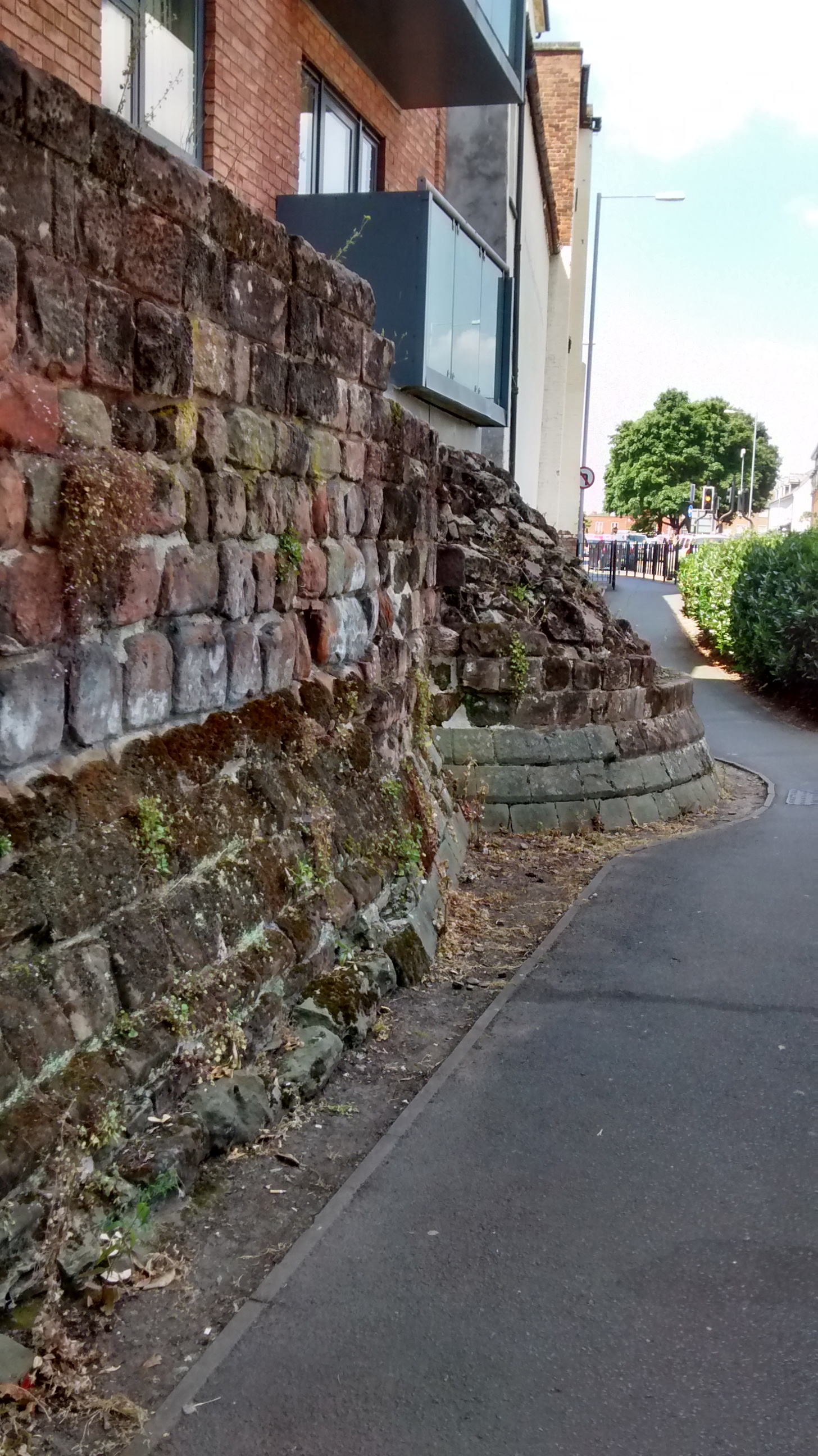 Remains of a section of the medieval wall and a tower near St Martin's Gate, Worcester. A modern sign near the tower's remains states "The medieval city was surrounded from 13th century by stone walls ... At least five towers of bastions are believed to have existed, though the semi-circular structure to the right is the only known survivor."